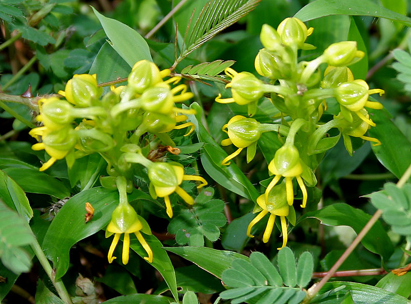 Habenaria marginata- Golden Yellow Habenaria • Marathi: पिवली हबेआमरी Pivali habe amri- in Goa, India.